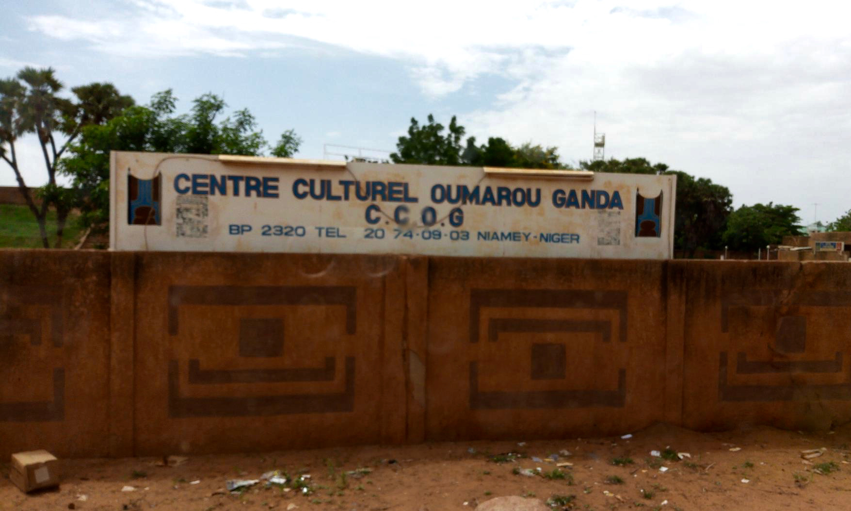 Sign of Centre Culturel Oumarou Ganda, Route Filingué, Niamey.